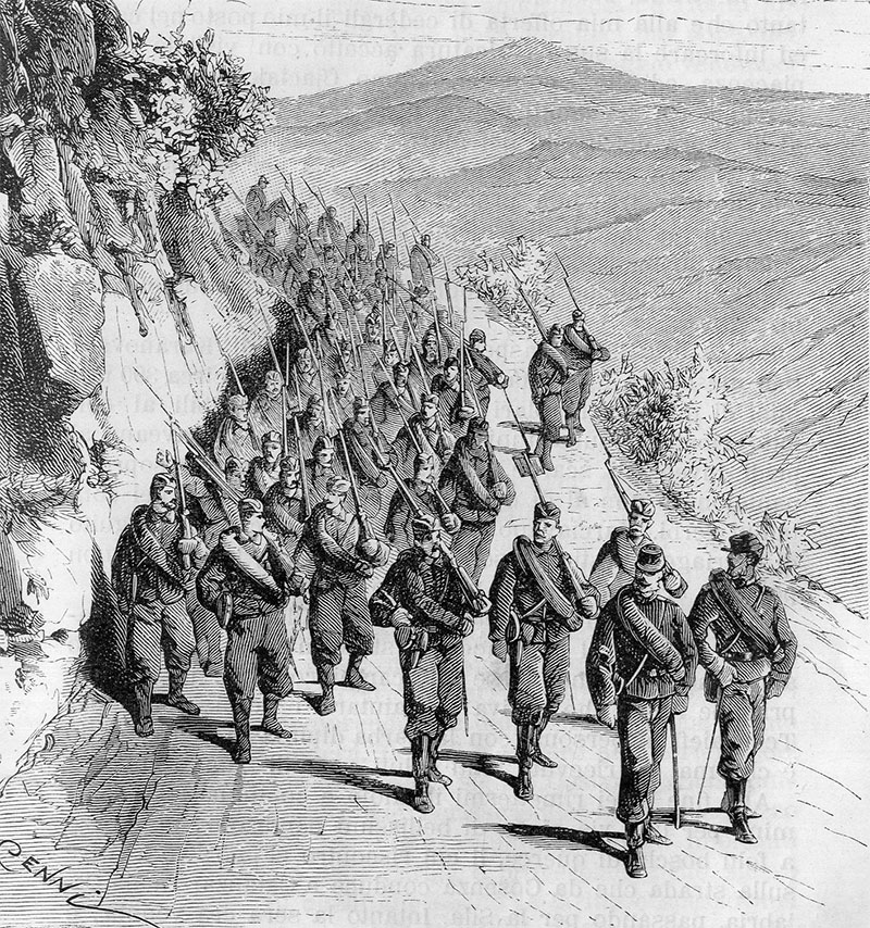 Serbian soldiers marching in 1876, drawing by Nicola Lazzaro